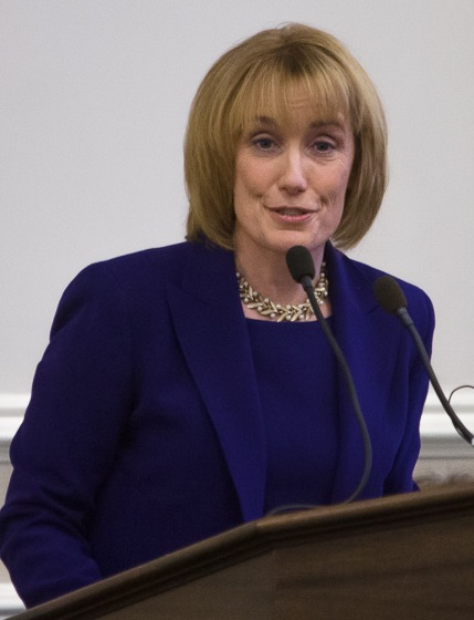 Governor Maggie Hassan's inaugural address